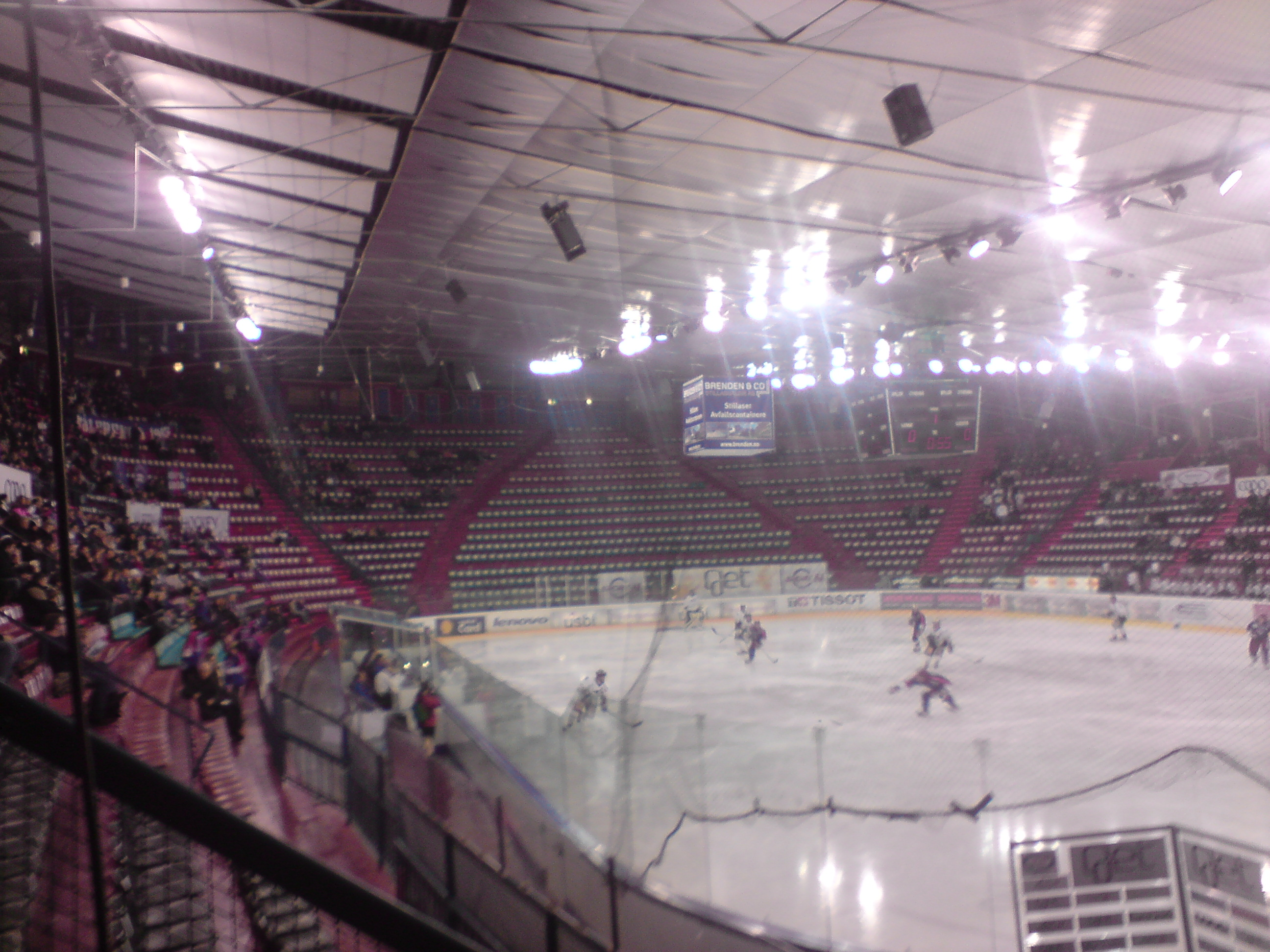 Inside the icehockey venue Jordal Amfi in Oslo